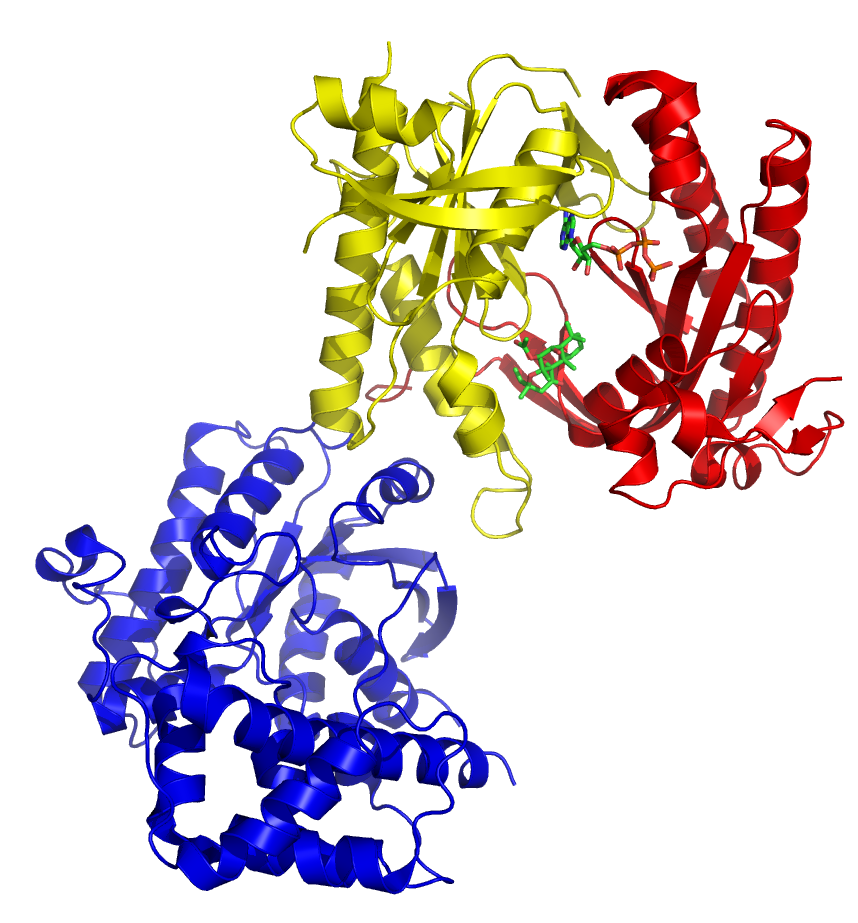 3D structure model of a mamalian adenylyl cyclase in complex with G-protein αs, forskolin, and ATP based on crystallogrophic data (PDB 3C16). See also Mou TC, Masada N, Cooper DM, Sprang SR (April 2009). "Structural basis for inhibition of mammalian adenylyl cyclase by calcium". Biochemistry 48 (15): 3387–97. PMID 19243146. PMC: 2680196.